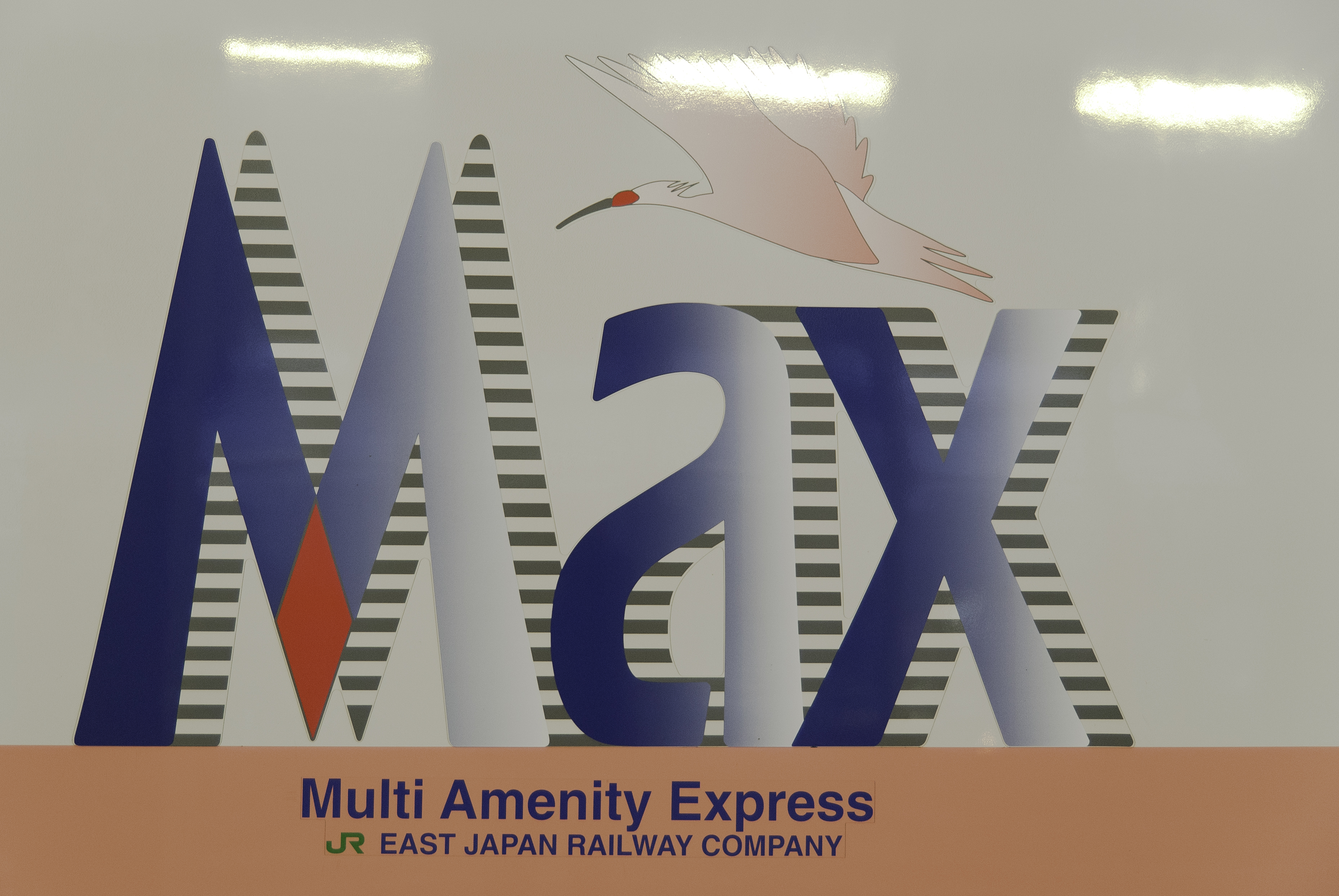 "Toki" logo on a JR East E1 series "Max" shinkansen at Niigata Station 新潟市